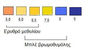 pH detection with urine strip